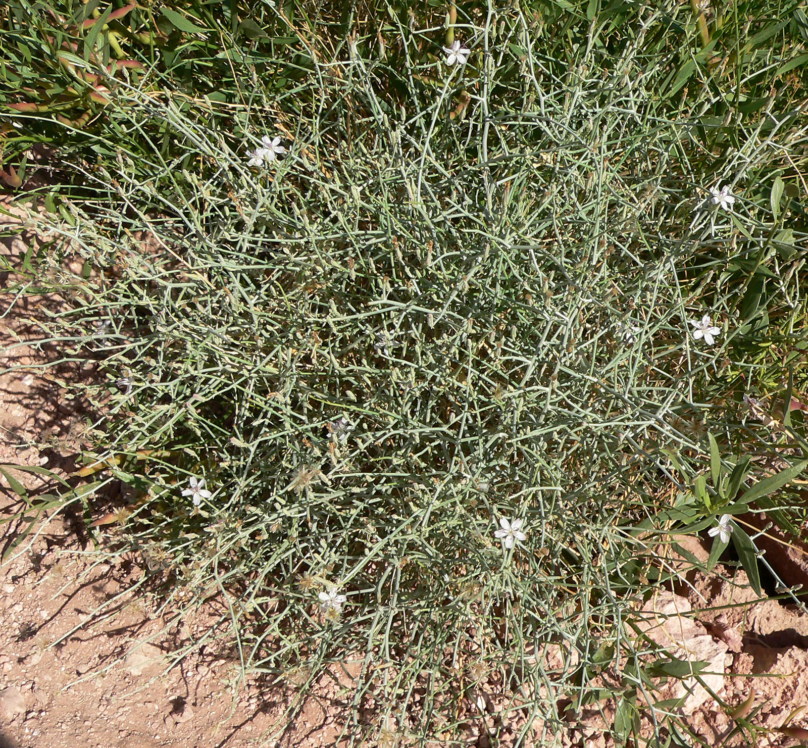 Stephanomeria pauciflora near Red Spring, Calico Basin, Spring Mountains, southern Nevada (elev. about 1100 m)